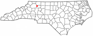 Category:North Carolina Dot Maps